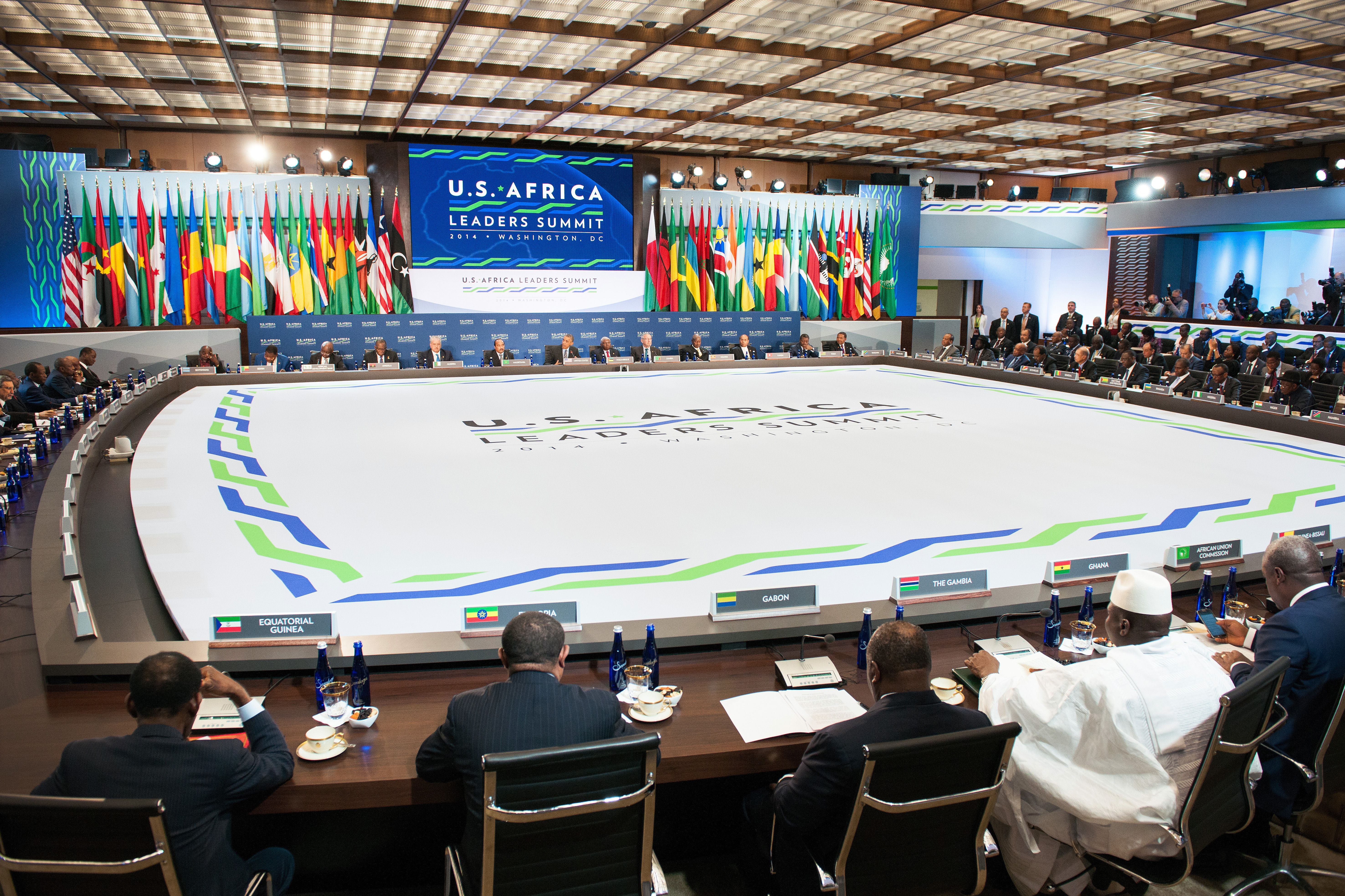 President Barack Obama delivers remarks at the U.S.-Africa Leaders Summit Session One on “Investing in Africa’s Future,” at the U.S. Department of State in Washington, D.C., on August 6, 2014.